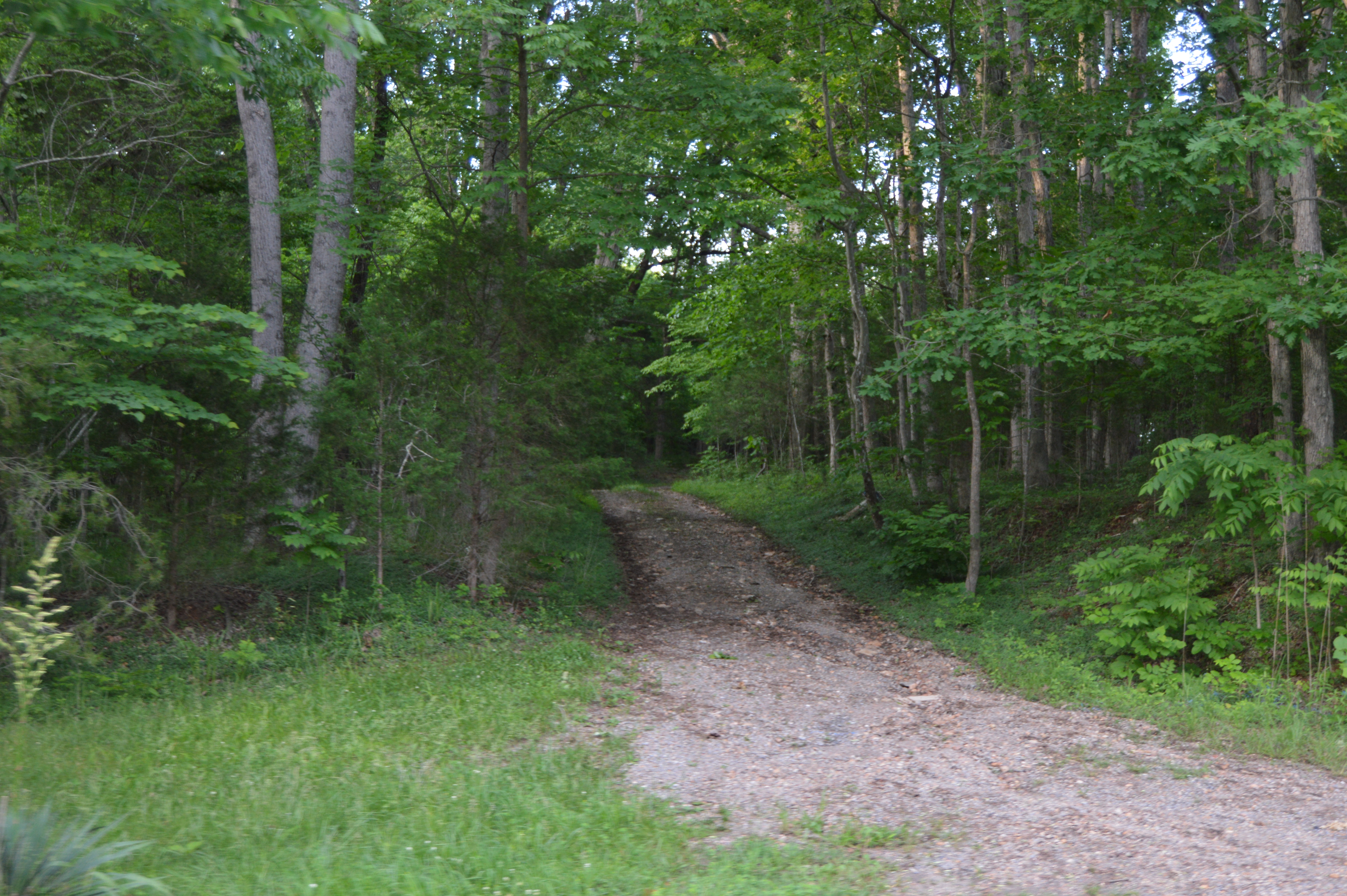 Driveway to the Caryswood estate, located on State Route 24 east of Evington in Campbell County, Virginia, United States. The estate is listed on the National Register of Historic Places.